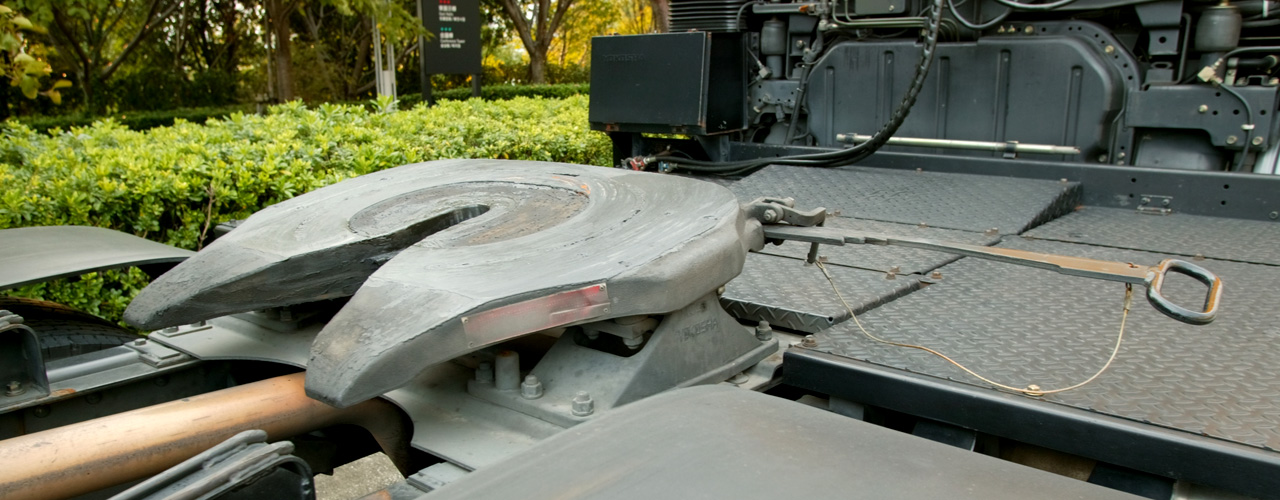 Turntable hitch(Fifth wheel) on a prime mover